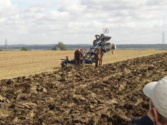 Ploughing The Old Way. Ploughing being done with two steam engines which draw the plough between the two engines. Picture taken at the festival of the plough near High Burnham North Lincs